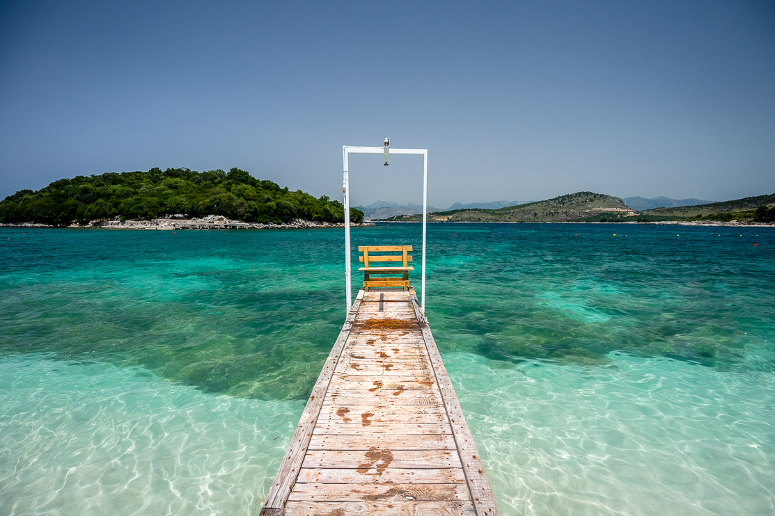 Jetty at Ksamill